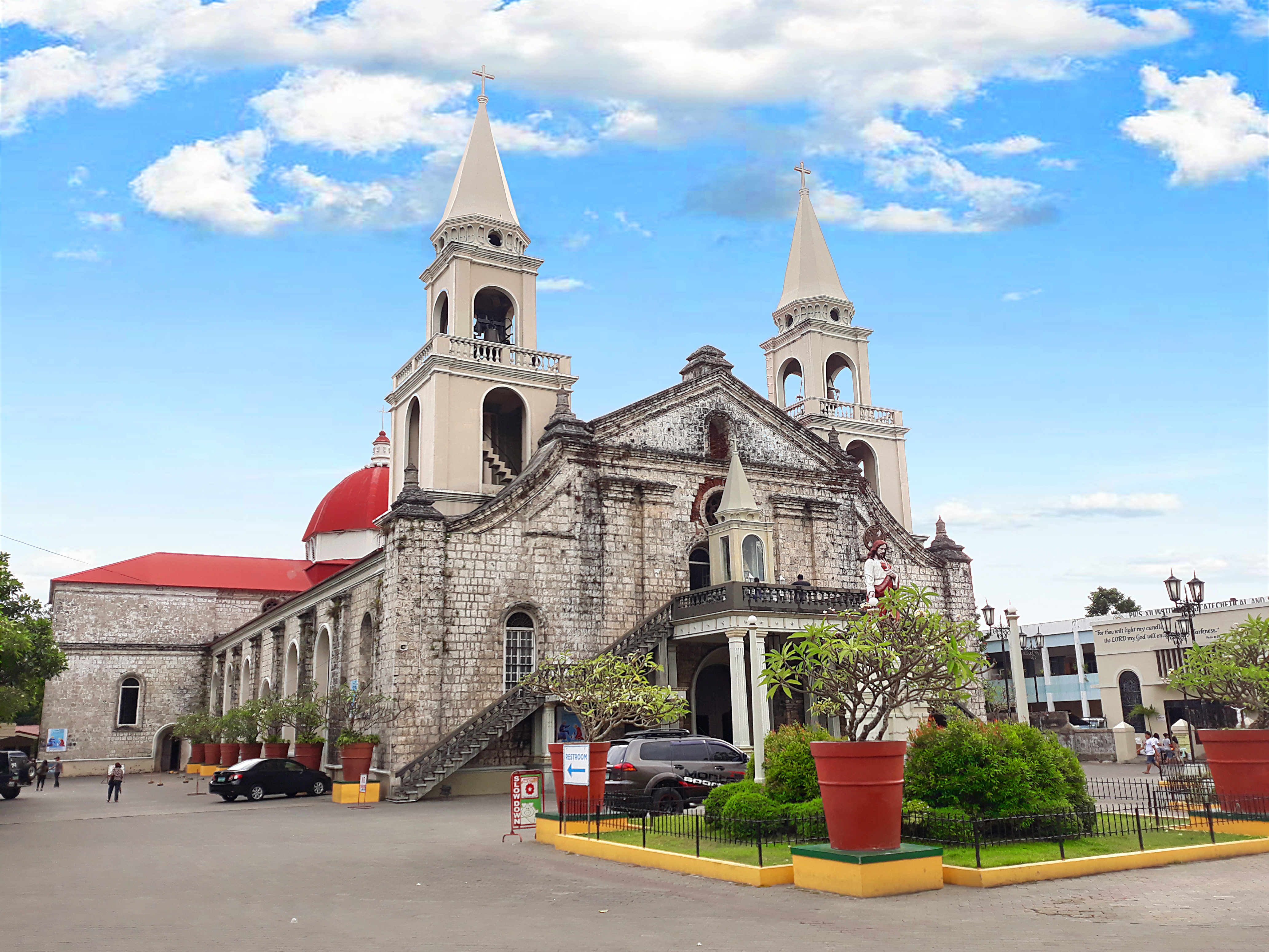 Jaro Cathedral or Jaro Metropolitan Cathedral (National Shrine of Our Lady of Candles) in Jaro, Iloilo City